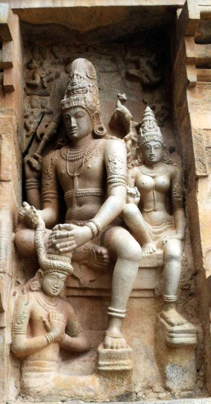 chandeshanugraha: Shiva tying a garland on Chandesha's head(granite, mind u),it's found in the Gangai-konda-choleshvaran temple (Gangaikondacholapuram temple. 1025-1035. Tamil Nadu (Bibl. : Vidya Dehejia : Indian Art, 1997, pages : 224-225